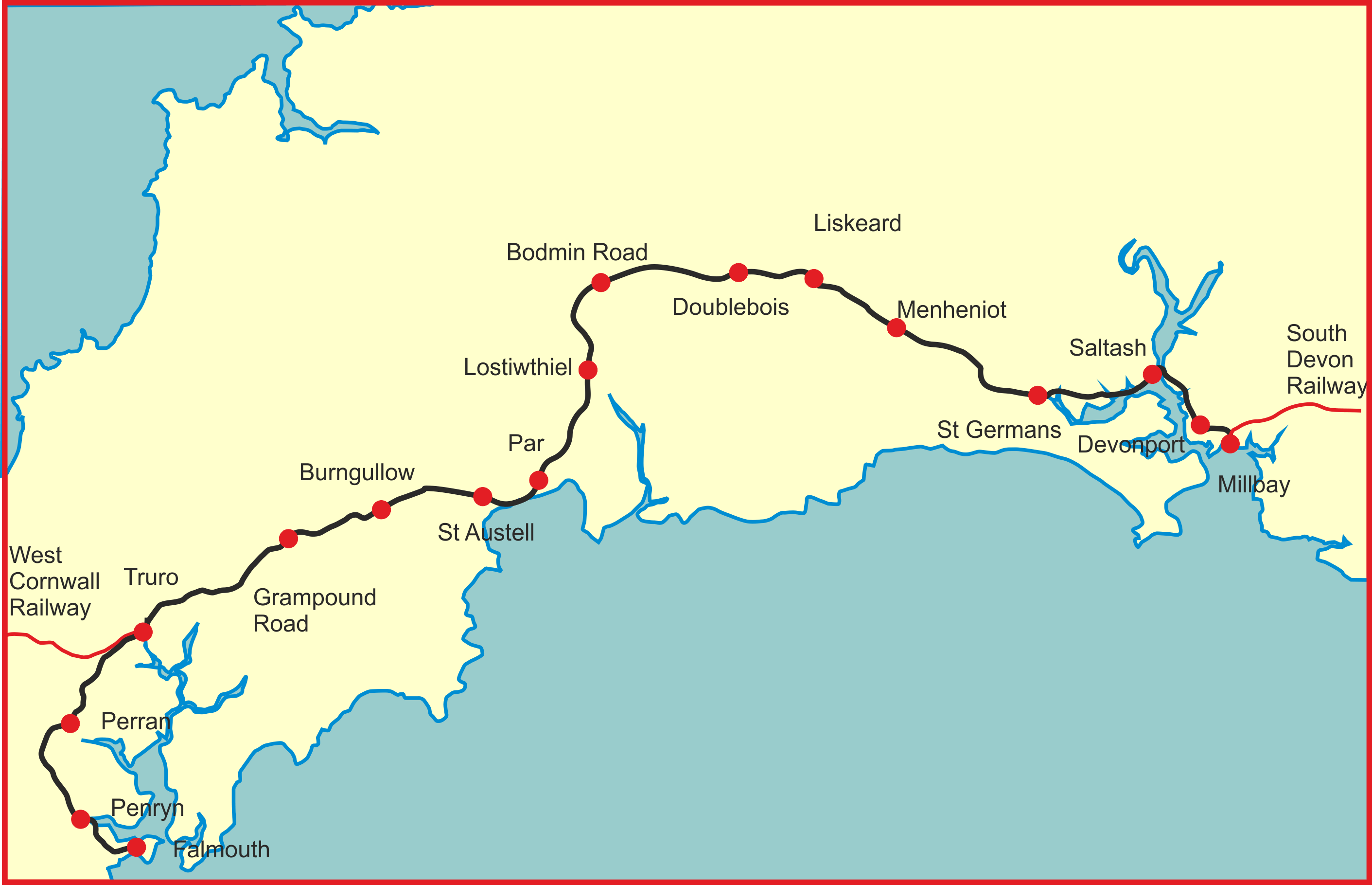 System map of the Cornwall Railway, England on opening